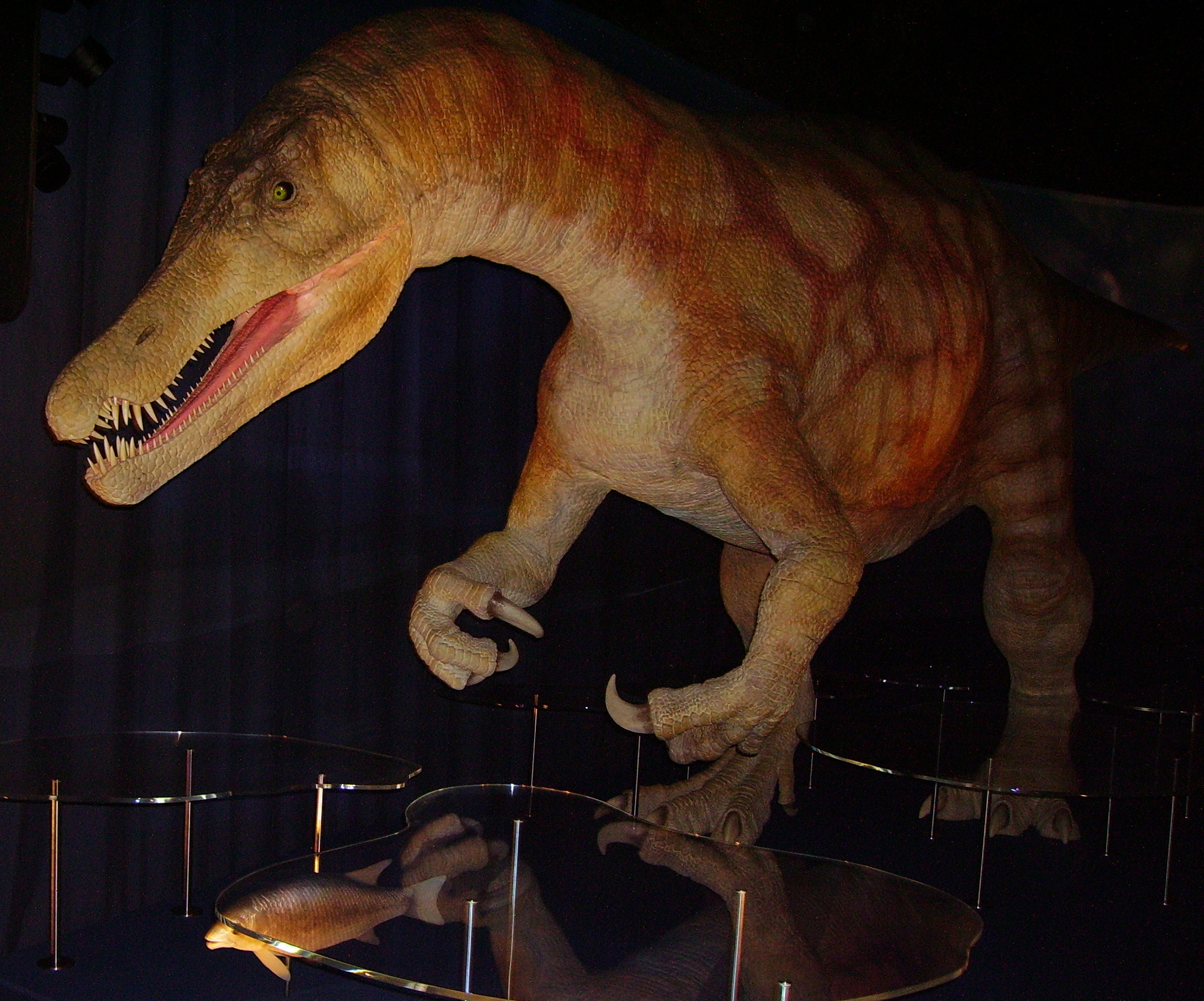 Baryonx animatronics display depicting fish hunting behavior with Scheenstia (formerly Lepidotes) - Natural History Museum, London